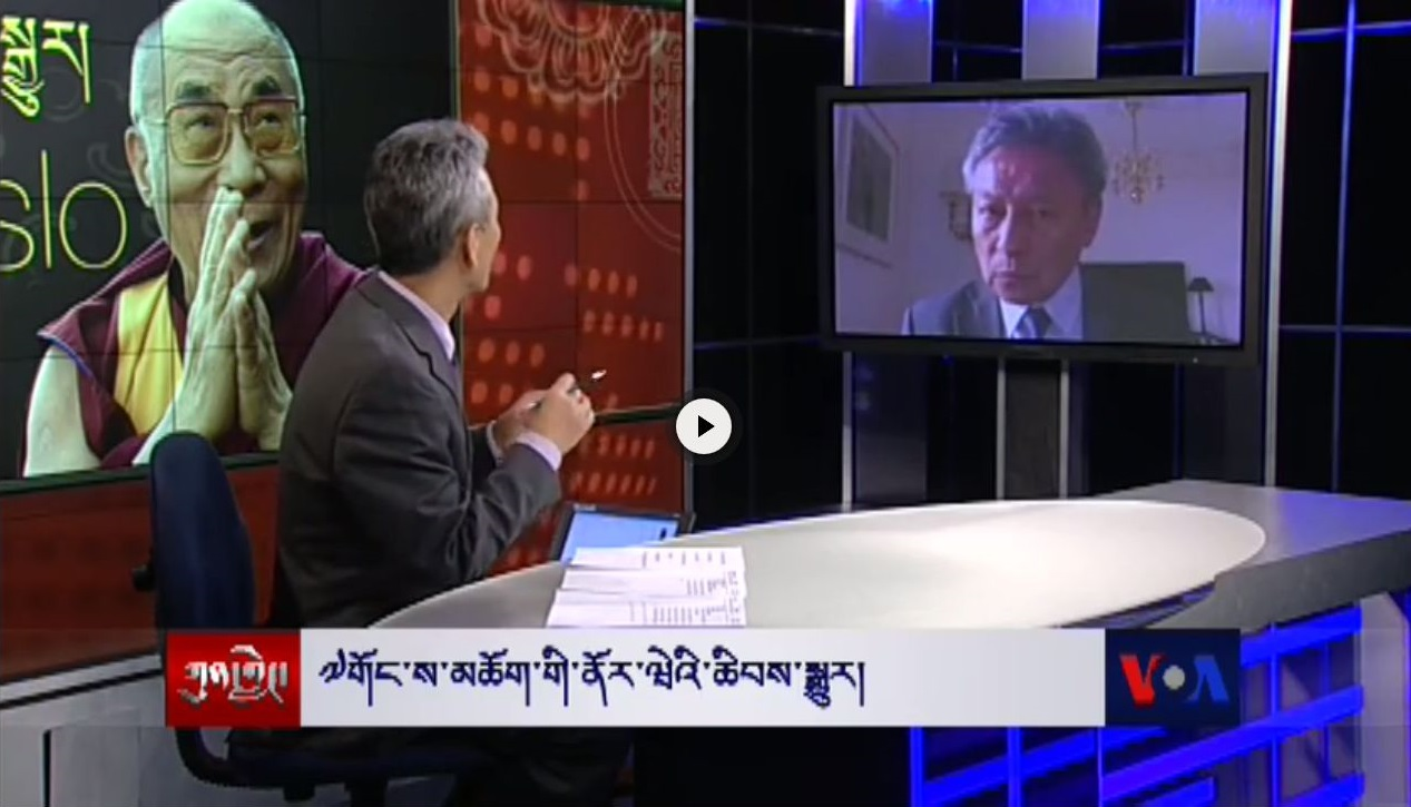 Thubten Samdup, Dalai Lama’s representative for Northern Europe